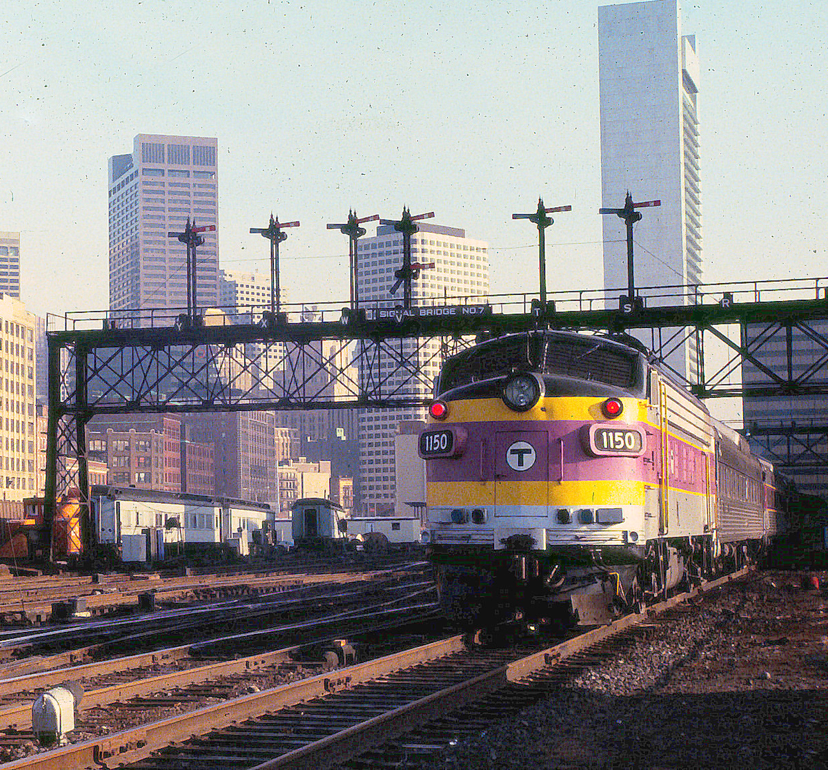 A commuter rail train at South Station in 1981, led by EMD FP10 locomotive #1150